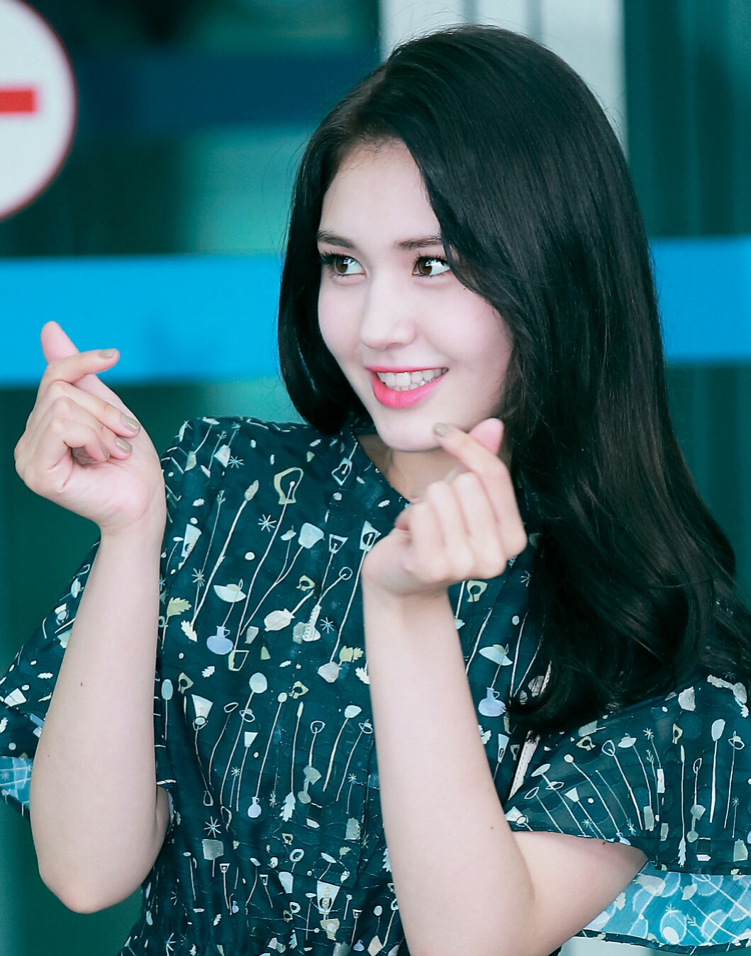 Jeon So-mi at Incheon Airport off to Hong Kong on June 6, 2017.